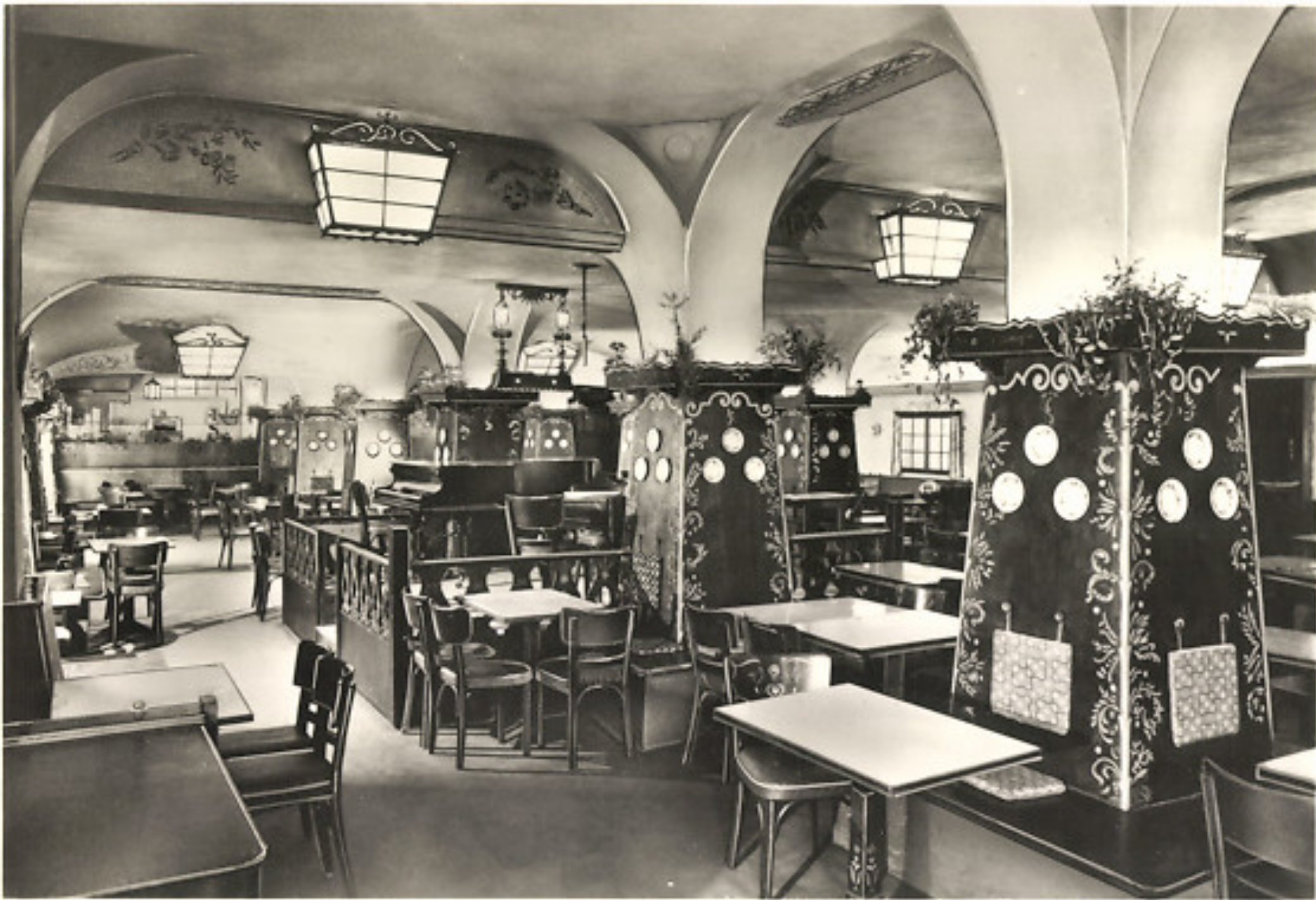 Contemporary picture postcard, published by Kutschera-Betriebe, Kurfürstendamm 26, Berlin-Charlottenburg. It shows a partial view of the Hungarian restaurant Zigeuner Keller which was opened in 1930 by Karl Kutschera (1876–1950). It was considered as a sensation because of its size plus the fact that it was completely below street level in the building's cellar.